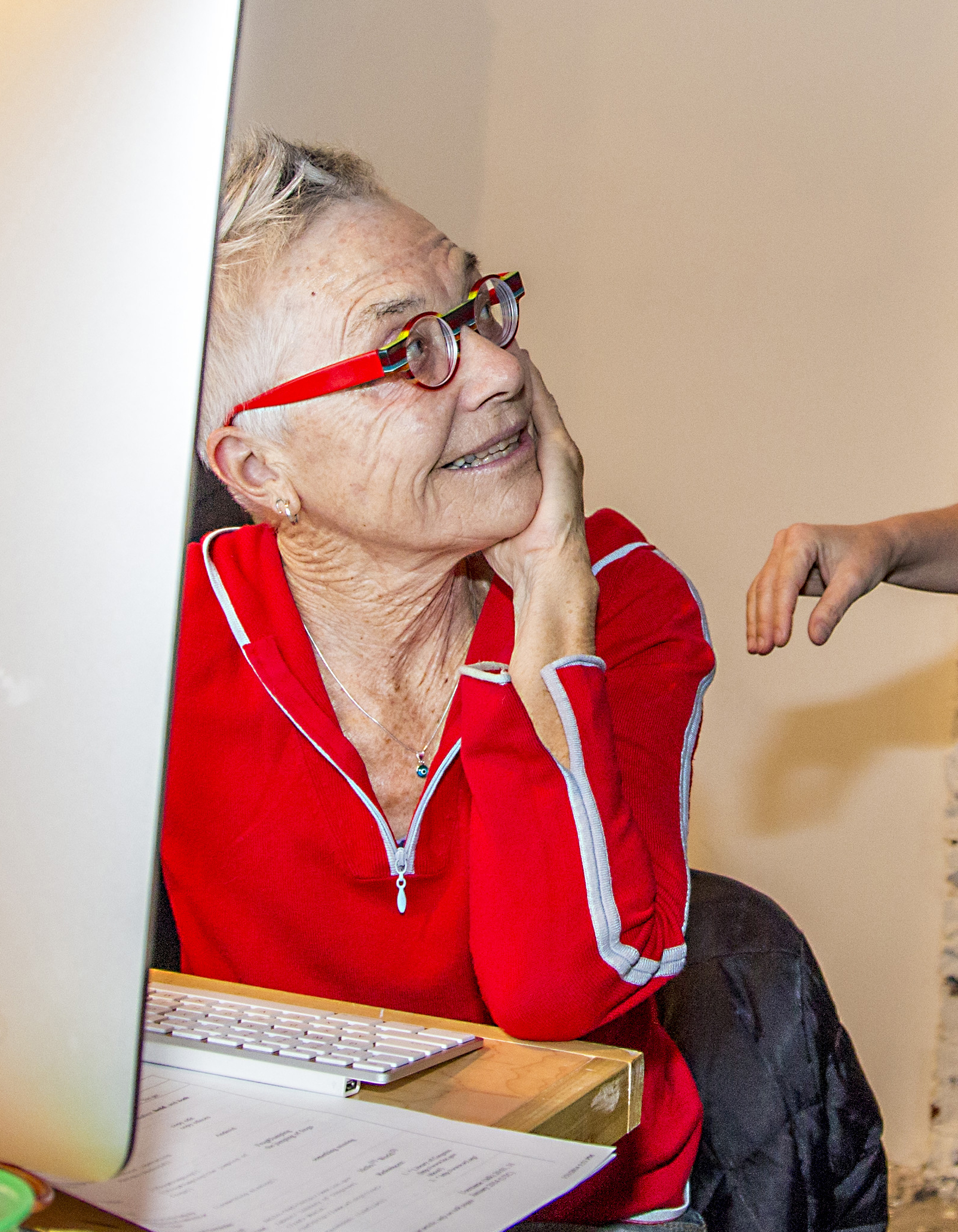 Barbara Hammer at the 2014 Art+Feminism Wikipedia Editathon at Eyebeam. This is a cropped version of ArtAndFeminismNYC-HardAtWork05.jpg with a more descriptive title.